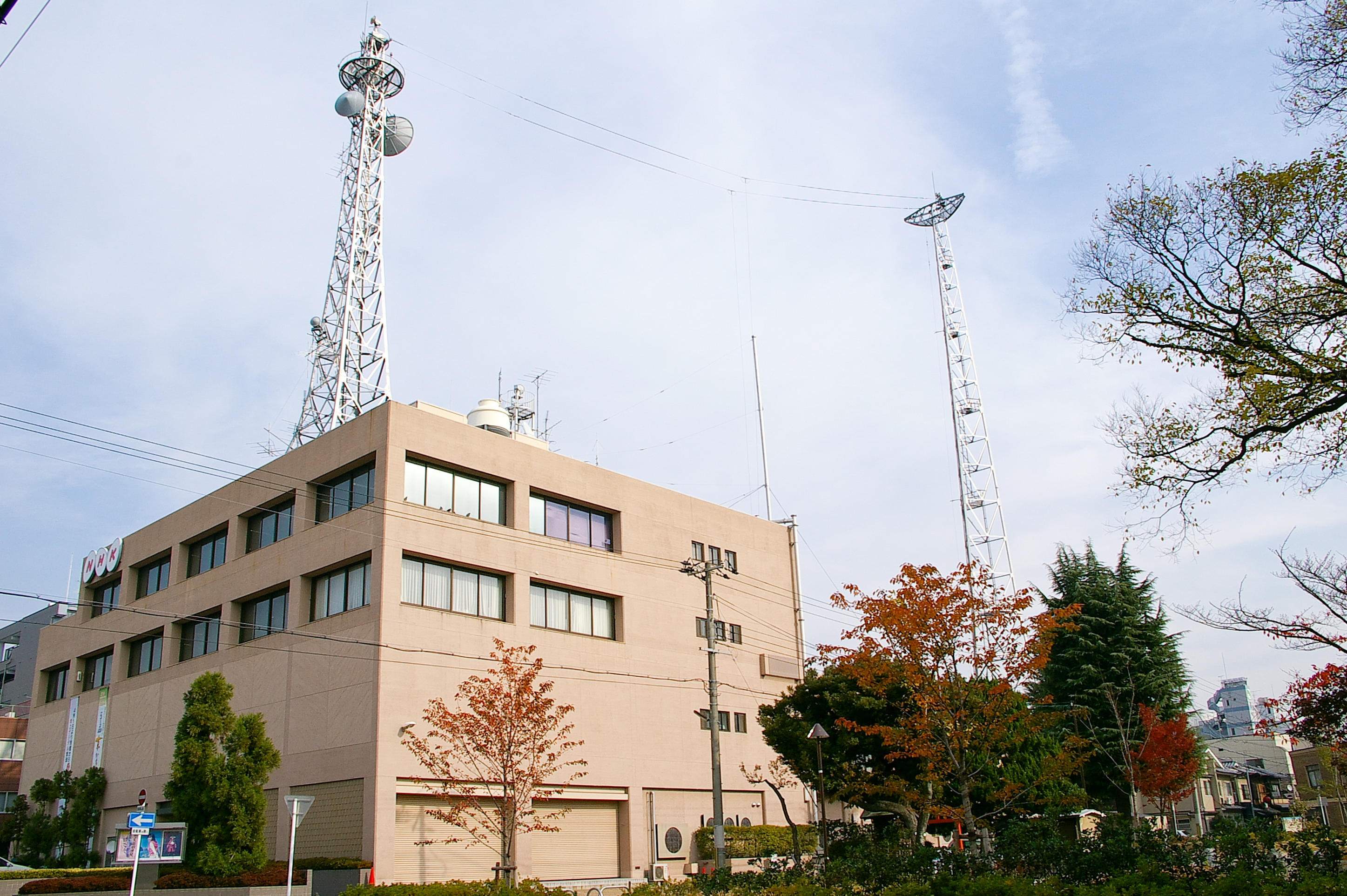 Photograph of NHK Kyoto Broadcasting Station Building in Kamigyo-ku, Kyoto, Kyoto Prefecture, Japan.